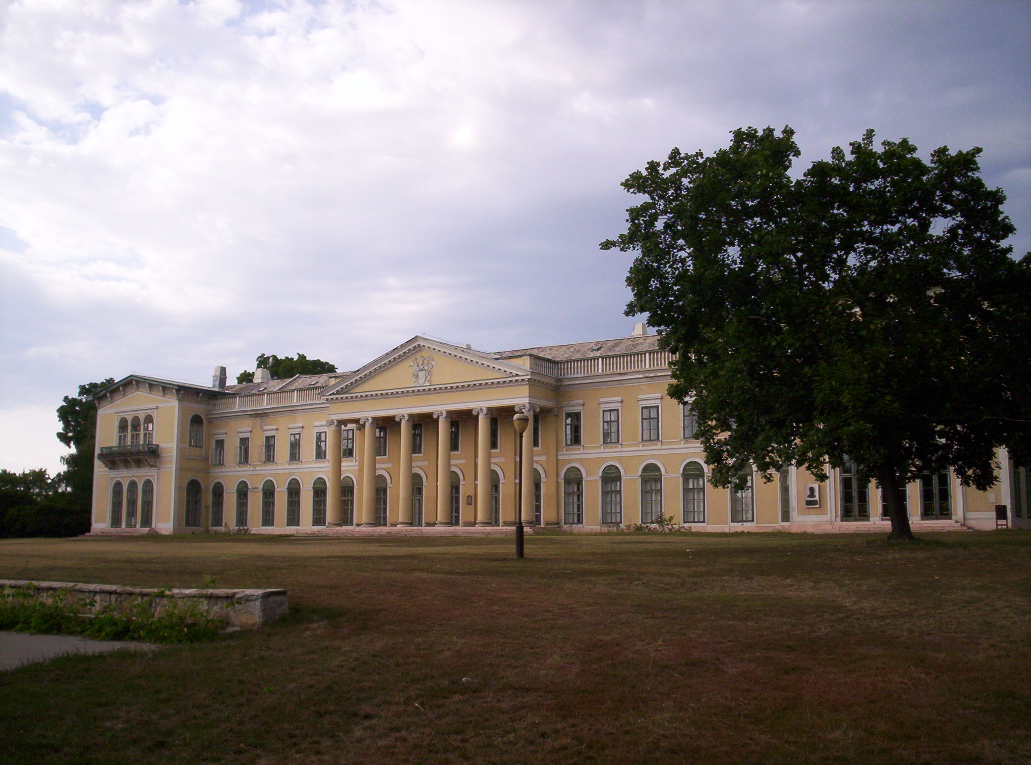 Károlyi Mansion in Fót